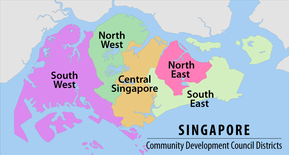 Map of the Community Development Council Districts of Singapore